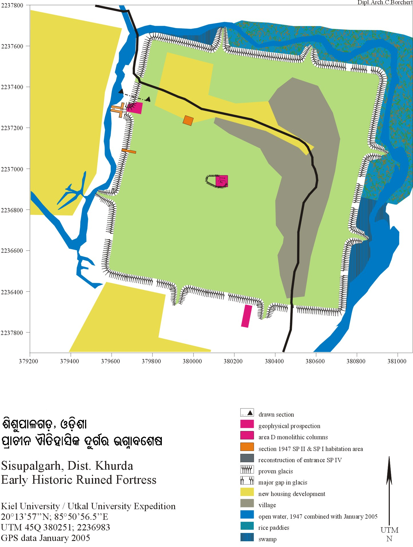 Detailed map of Sisupalagada. The remains of the ancient city Sisupalgarh has been discovered near Bhubaneswar,capital of an eastern state of Orissa in India.Archaeologists claim the city to be at least 2,500 years old.